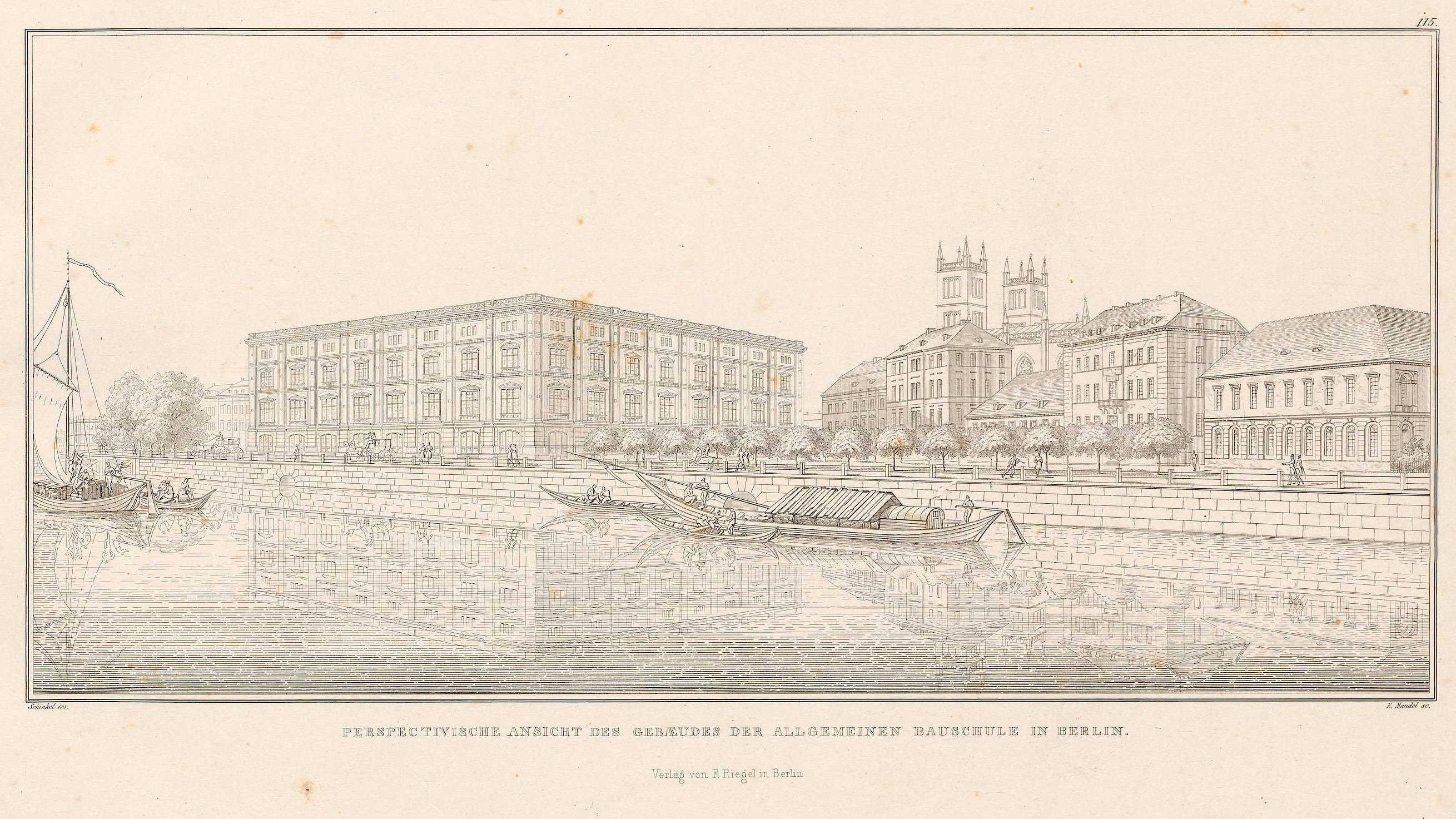 Bauakademie Berlin, Perspektive von Schinkel